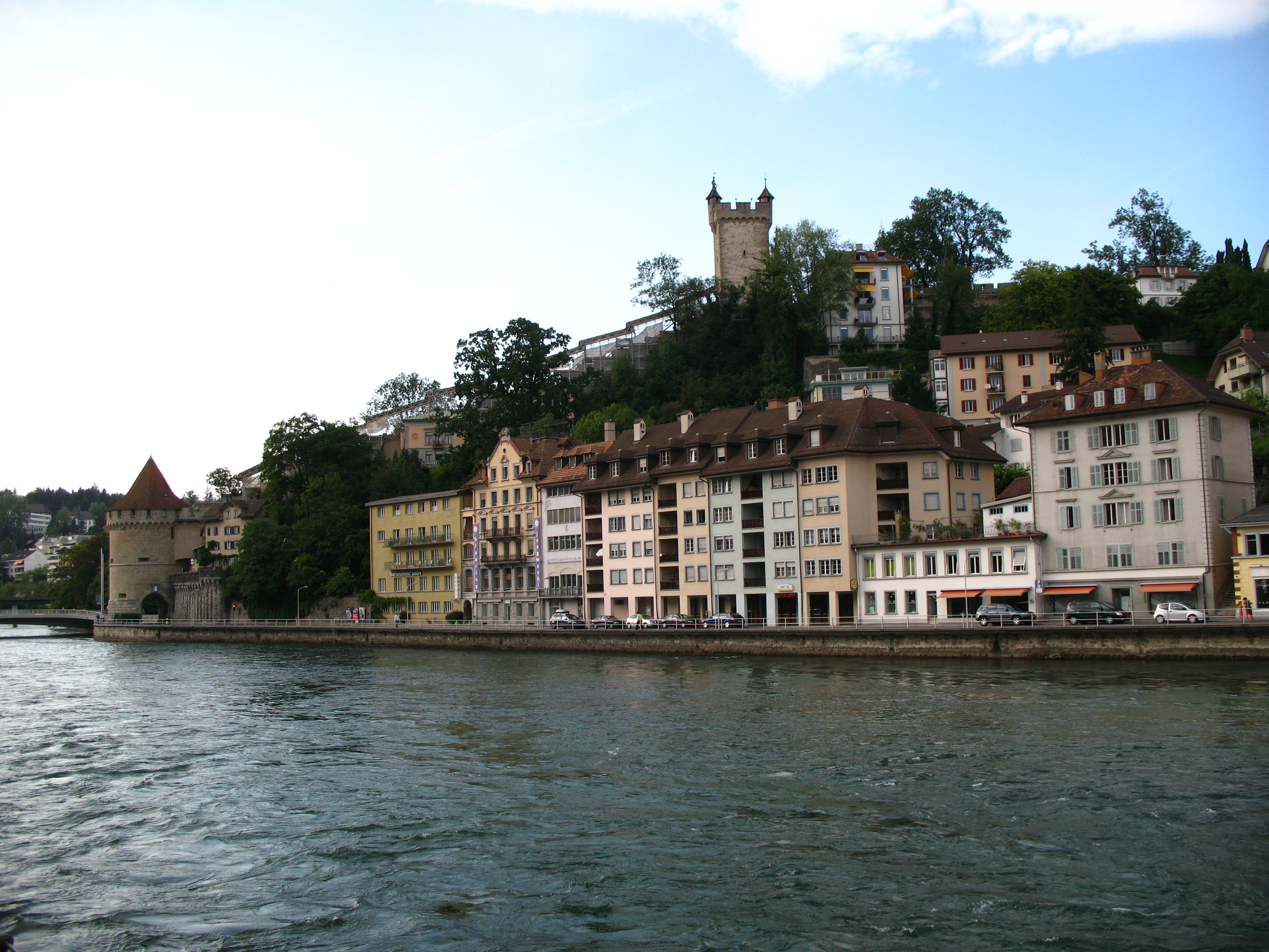 Saint Karli Quay, Luzern, Switzerland